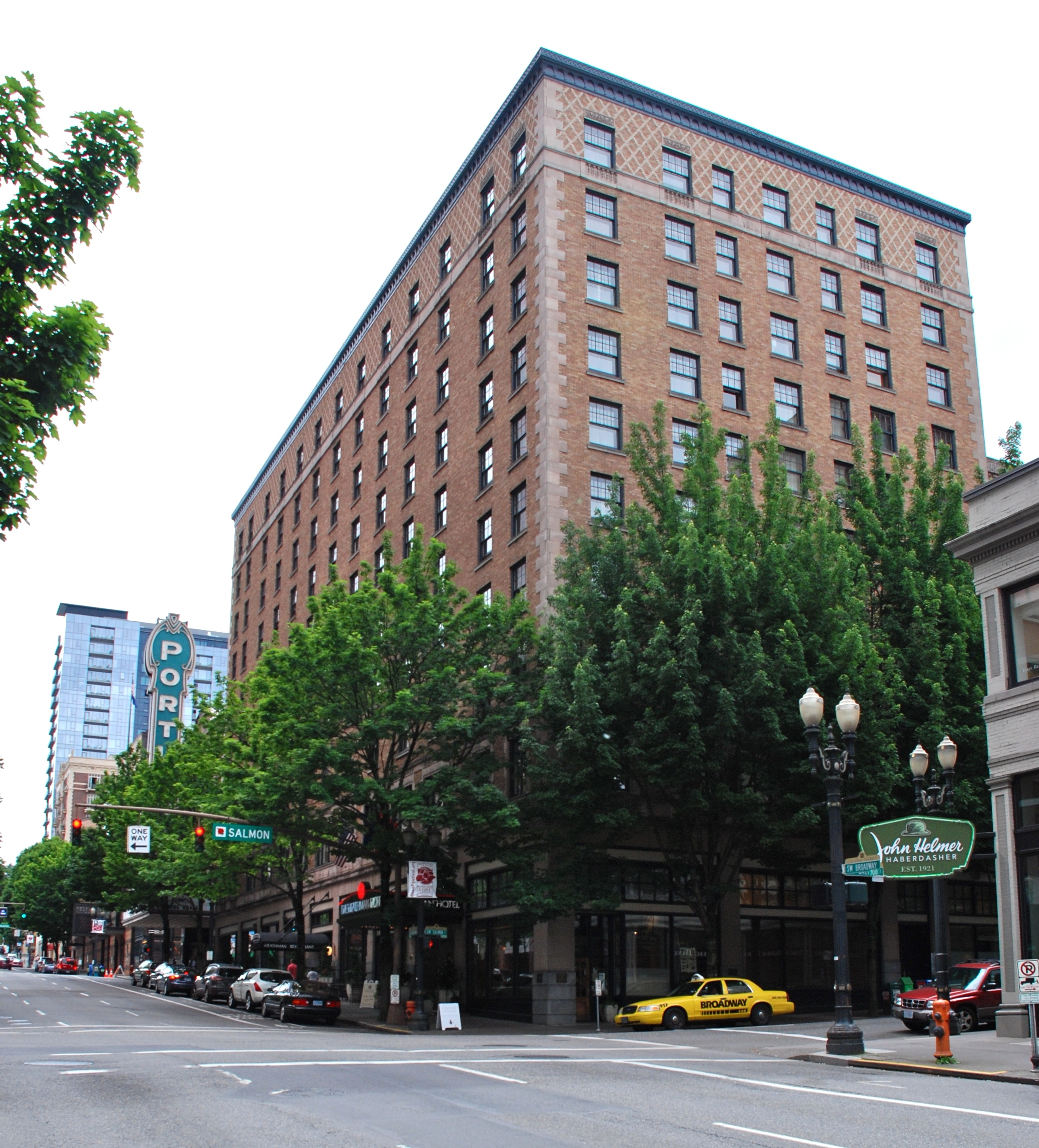 The Heathman Hotel, in Portland, Oregon, viewed looking southwest across the intersection of Salmon Street and Broadway.